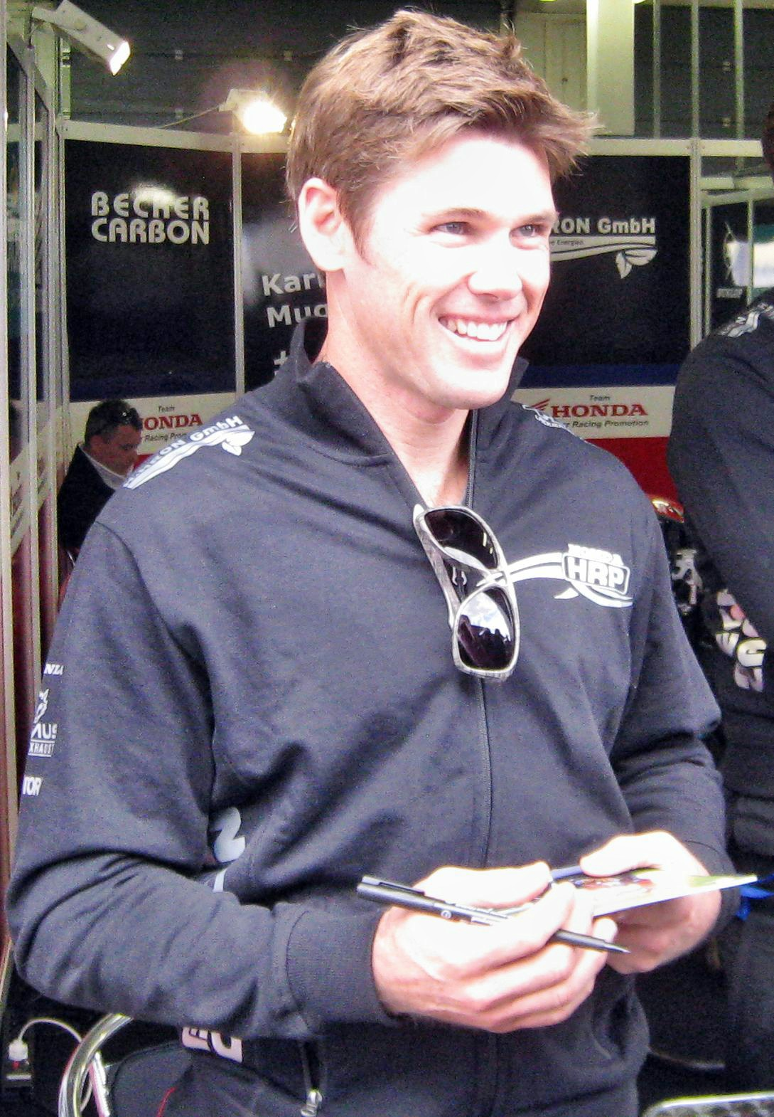 Karl Muggeridge 2012 at EuroSpeedway Lausitz